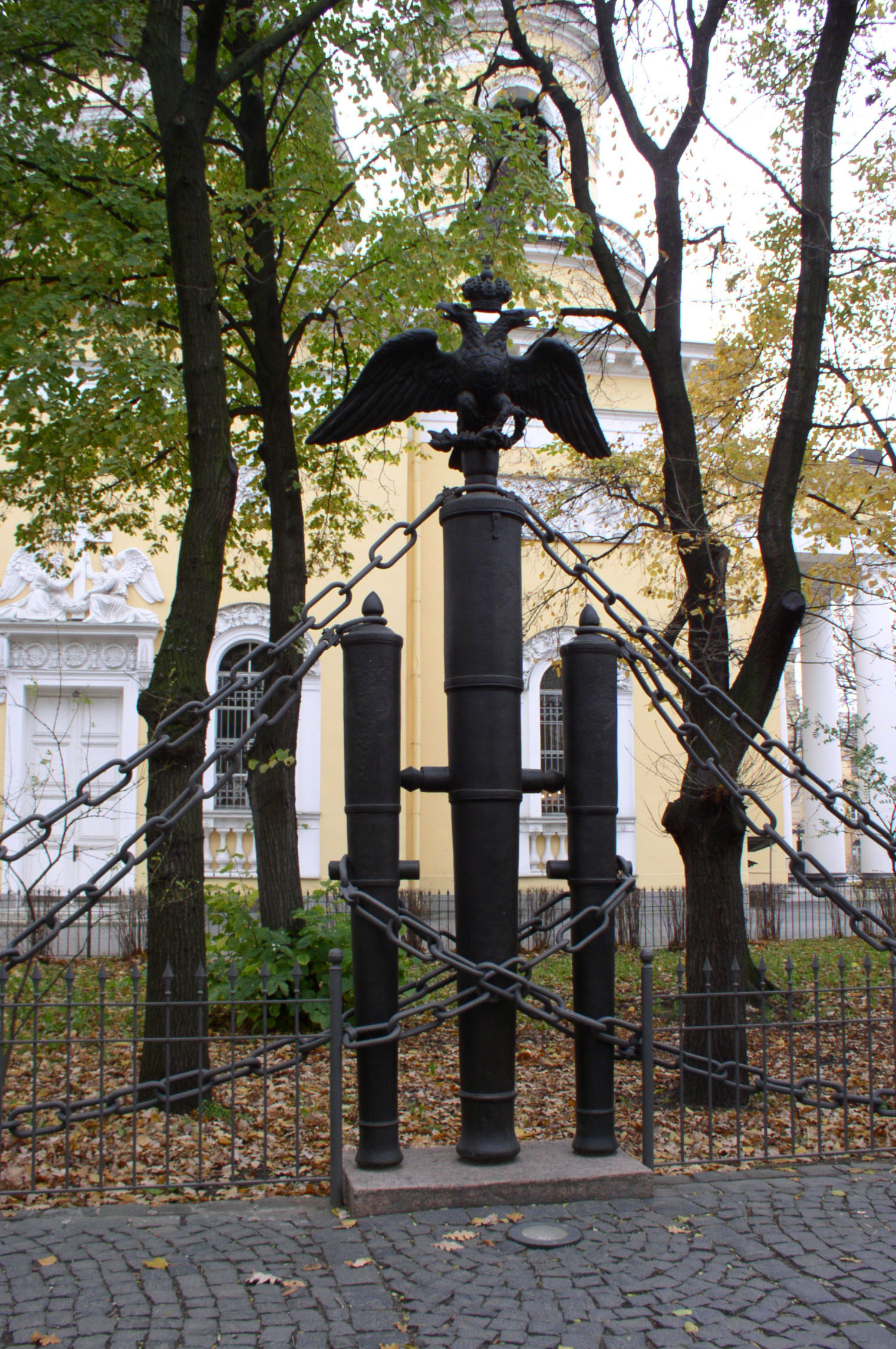 The fence element of the Transfiguration Cathedral in Saint Petersburg. October 31, 2006.